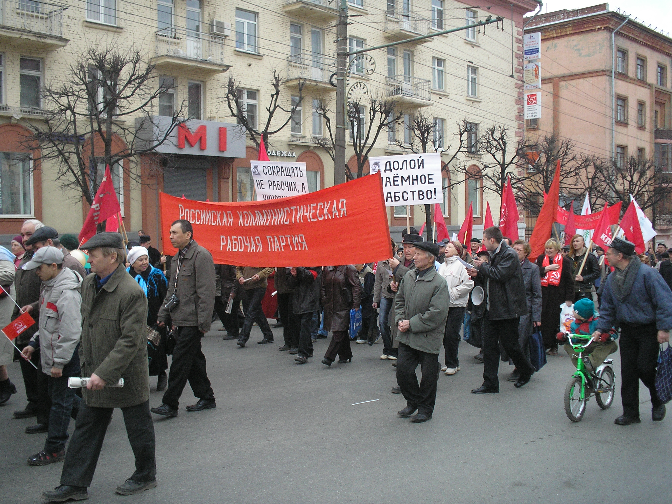 Column of Russian Communist Worker's Party on 1st may demonstration in Izhevsk, Russia